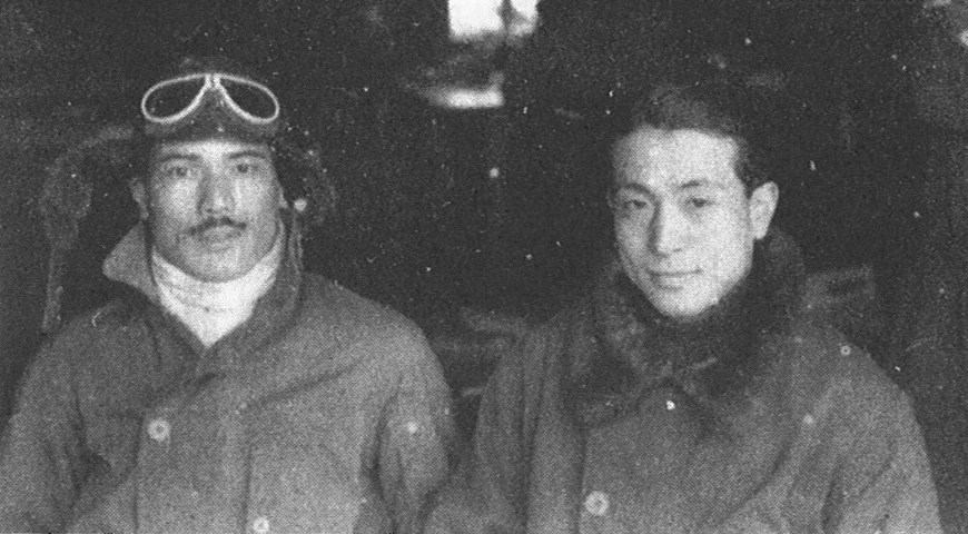 Toshio Kuroiwa (left), and Yoshio Shiga (right) at Nanjing Air Base, 1938.